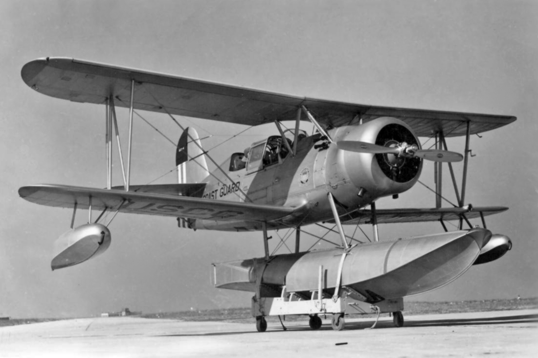 U.S. Coast Guard Curtiss SOC-4 Seagull at Coast Guard Air Station (CGAS) Floyd Bennett Field, New York. The U.S. Coast Guard acquired the final three SOC-3 Seagulls produced by Curtiss in 1938 and these were designated as SOC-4s. They were assigned the USCG call numbers V171, V172, and V173 (BuNo 48243, 48244, 48245, respectively). All three were transferred to the U.S. Navy in 1942, which redesignated them SOC-3A.